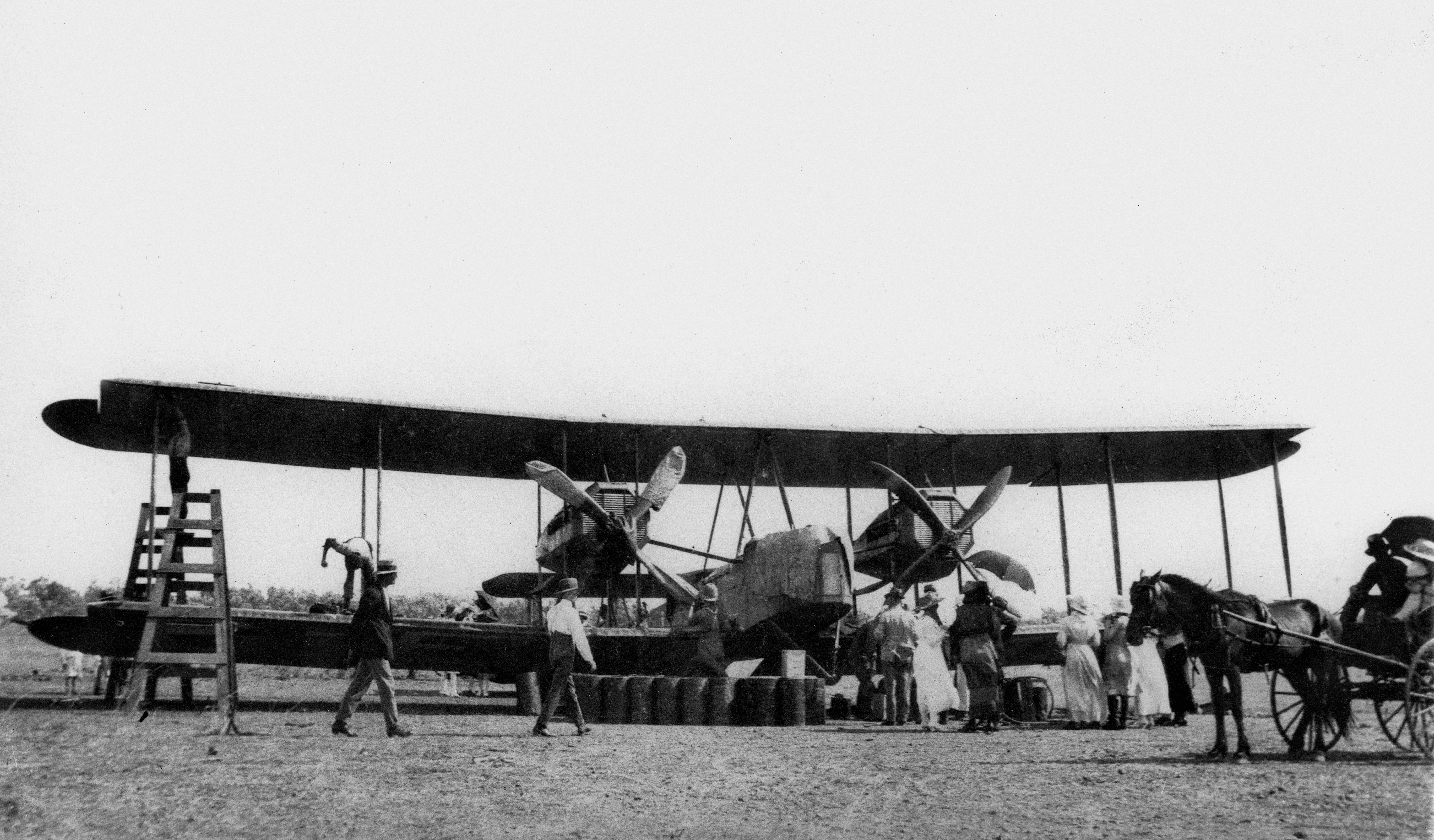 Early Vickers Vimy biplane, next to fuel tanks at the airfield, 1919 Ross and Keith Smith's Vickers Vimy aircraft. (Description supplied with photograph.).